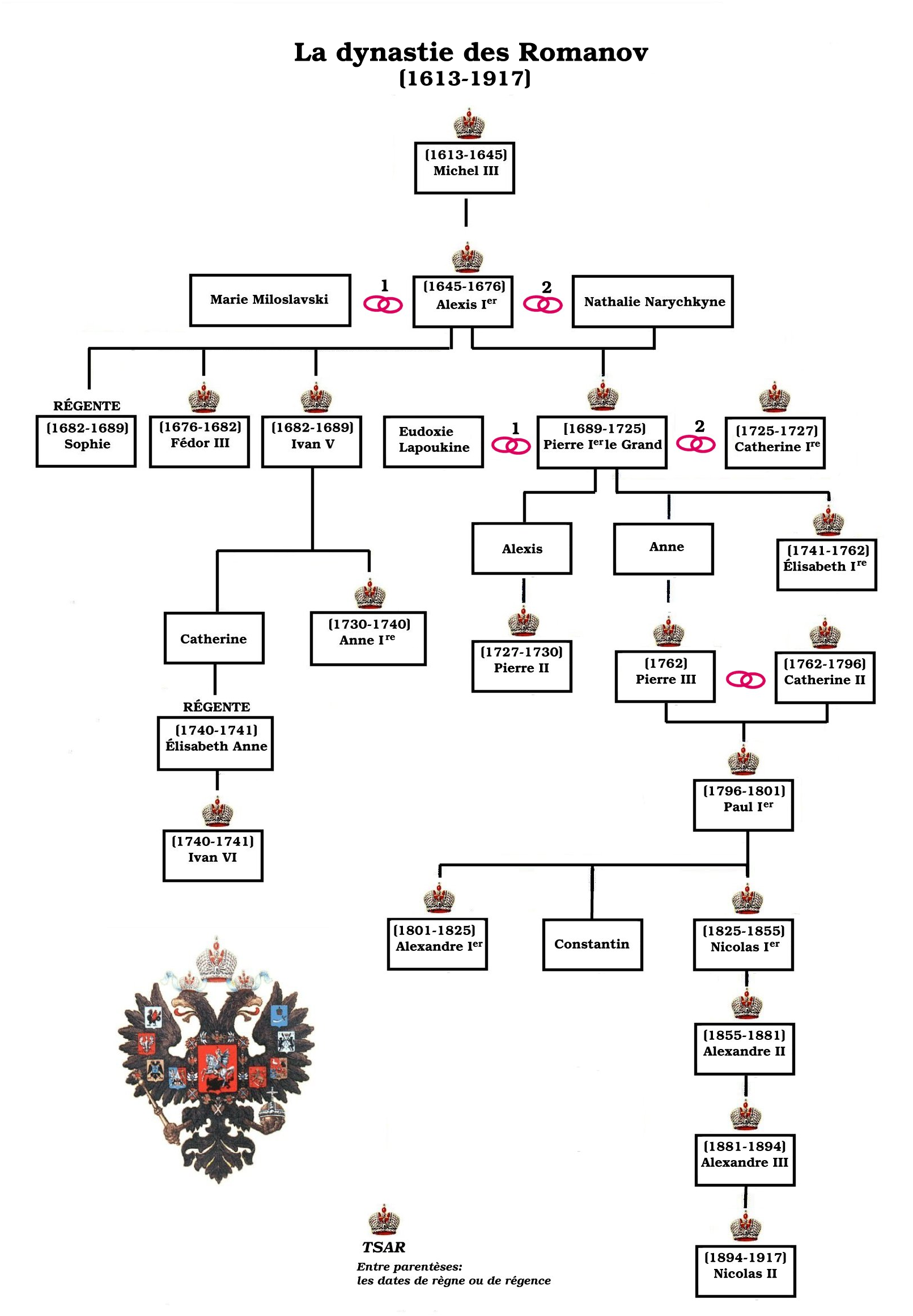 Chronological chart, of the Romanov dynasty (1613-1917)